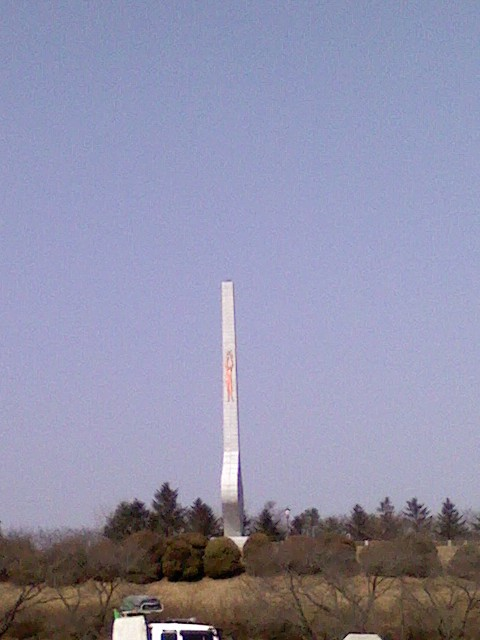 Monument of Expressway 1 complition in Chupungnyeong Service area